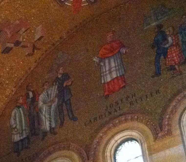 Mosaic tiles on ceiling of St. Louis Cathedral, depicting Joseph Cardinal Ritter.